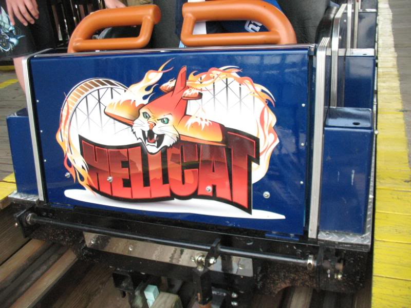 Clementon Amusement Park